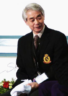 Coach Nobuo Sato in the kiss & cry at the 2008-2009 Grand Prix Final